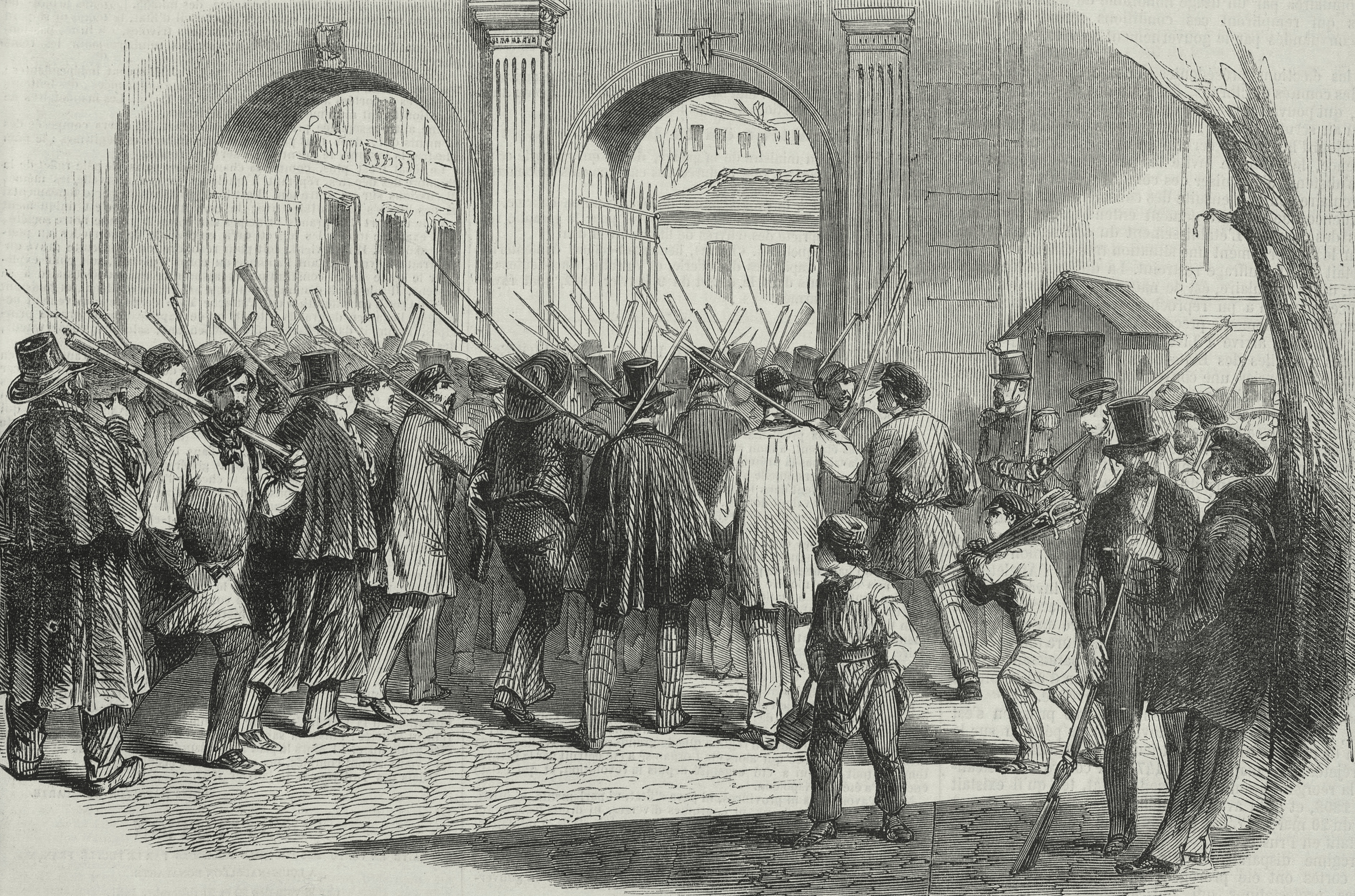 This print was published a week after the new constitution was instituted by Louis-Napoléon. As the regime was changing and as the Republic was being replaced by what was to become the Second Empire, Napoleon III had the National Guards disarmed. The National Guard was created during the Revolution. It was a middle class militia that had been organized in each city. Its members were elected. It survived through the Restorations and the July Monarchy, but Napoleon III confined it to a very restricted role as soon as he was in power.